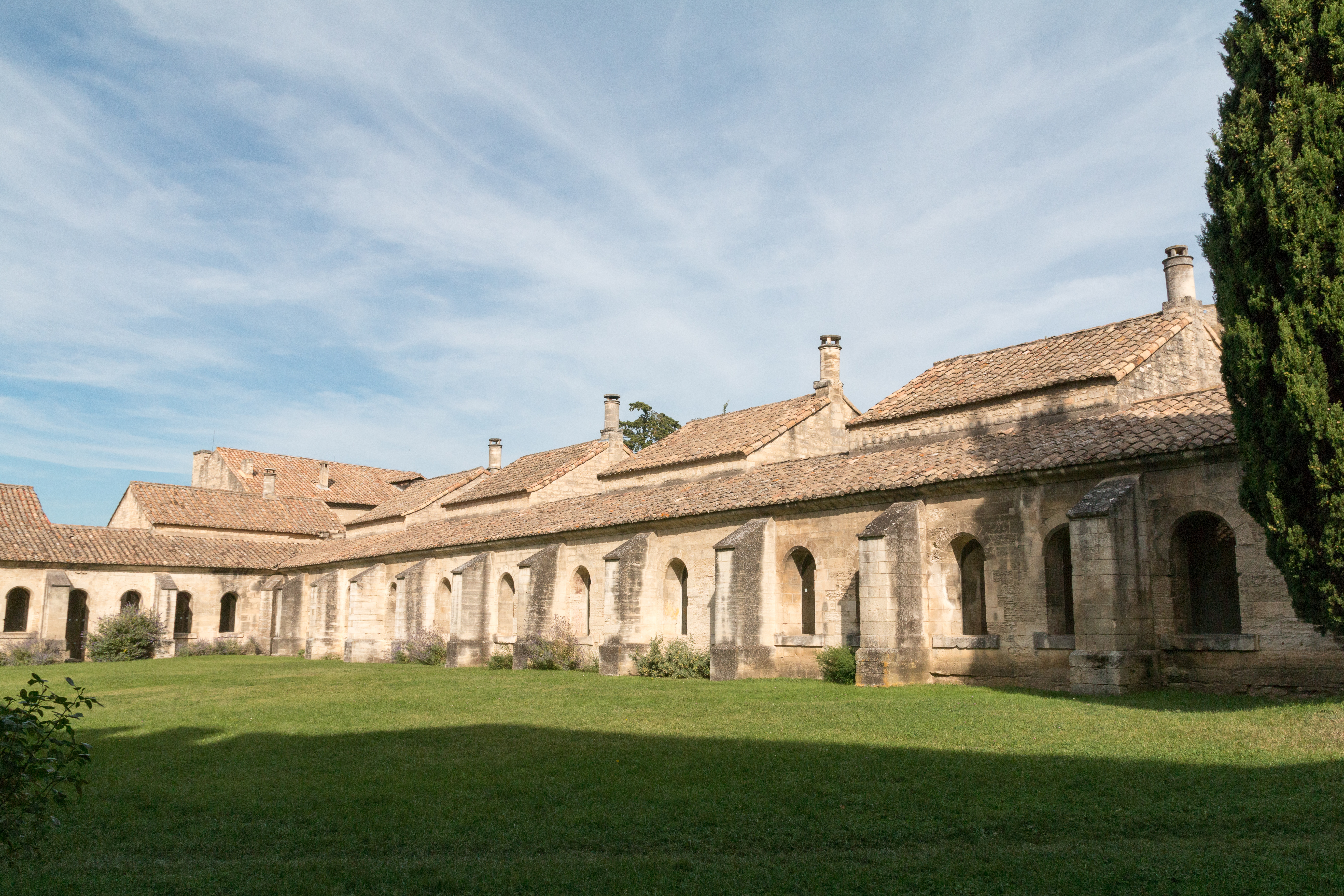 As is the rule of the Carthusian monks, the cloister is the cemetery where the fathers are buried anonymously in the ground.